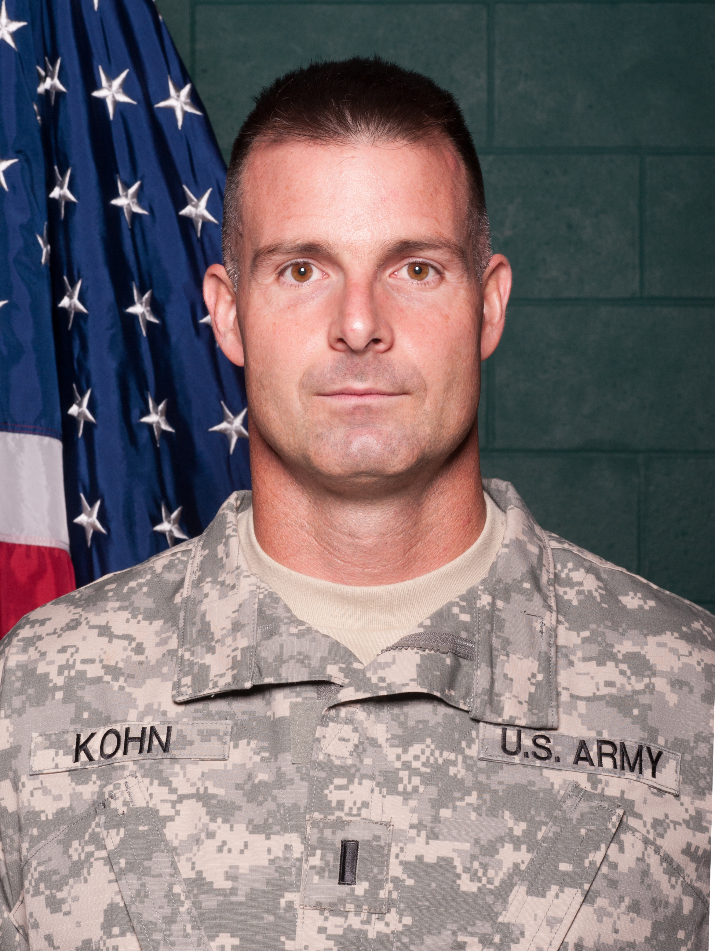 Two-time Olympic competitor 1st Lt. Michael Kohn of the U.S. Army World Class Athlete Program will make his Olympic coaching debut for Team USA at the 2014 Olympic Winter Games in Sochi, Russia.